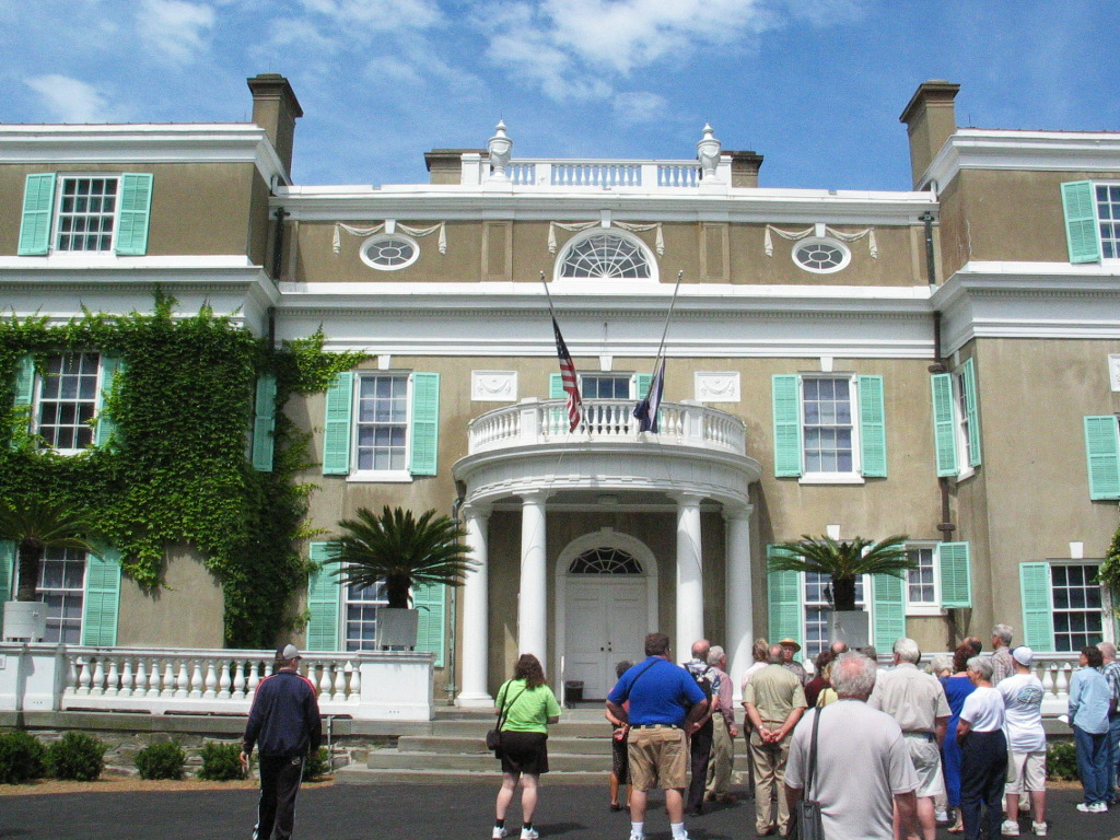 The house where Franklin Delano Roosevelt lived in how a National Historic Landmark.